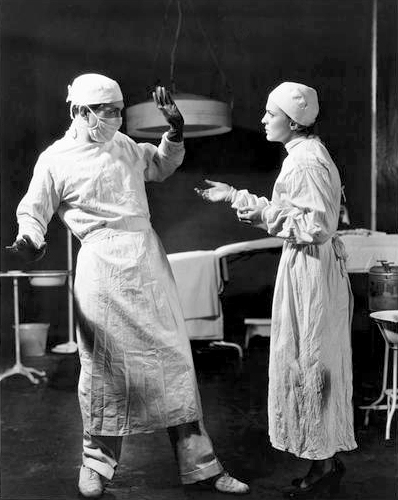 Photograph of Alexander Kirkland as Dr. Ferguson and Margaret Barker as Laura Hudson in Men in White